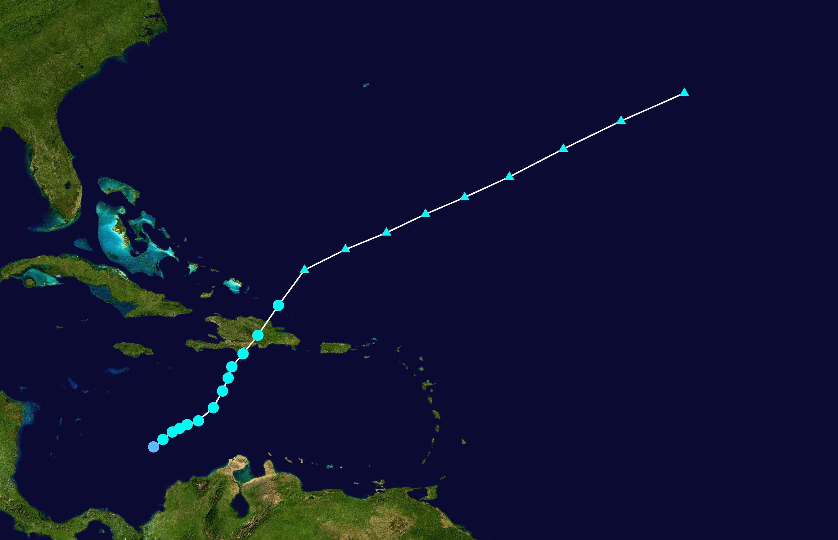 Track map of Tropical Storm Odette of the 2003 Atlantic hurricane season. The points show the location of the storm at 6-hour intervals. The colour represents the storm's maximum sustained wind speeds as classified in the Saffir–Simpson scale (see below), and the shape of the data points represent the nature of the storm, according to the legend below. Saffir–Simpson scale Tropical depression≤38 mph≤62 km/h Category 3111–129 mph178–208 km/h Tropical storm39–73 mph63–118 km/h Category 4130–156 mph209–251 km/h Category 174–95 mph119–153 km/h Category 5≥157 mph≥252 km/h Category 296–110 mph154–177 km/h Unknown Storm type Tropical cyclone Subtropical cyclone Extratropical cyclone / Remnant low / Tropical disturbance / Monsoon depression